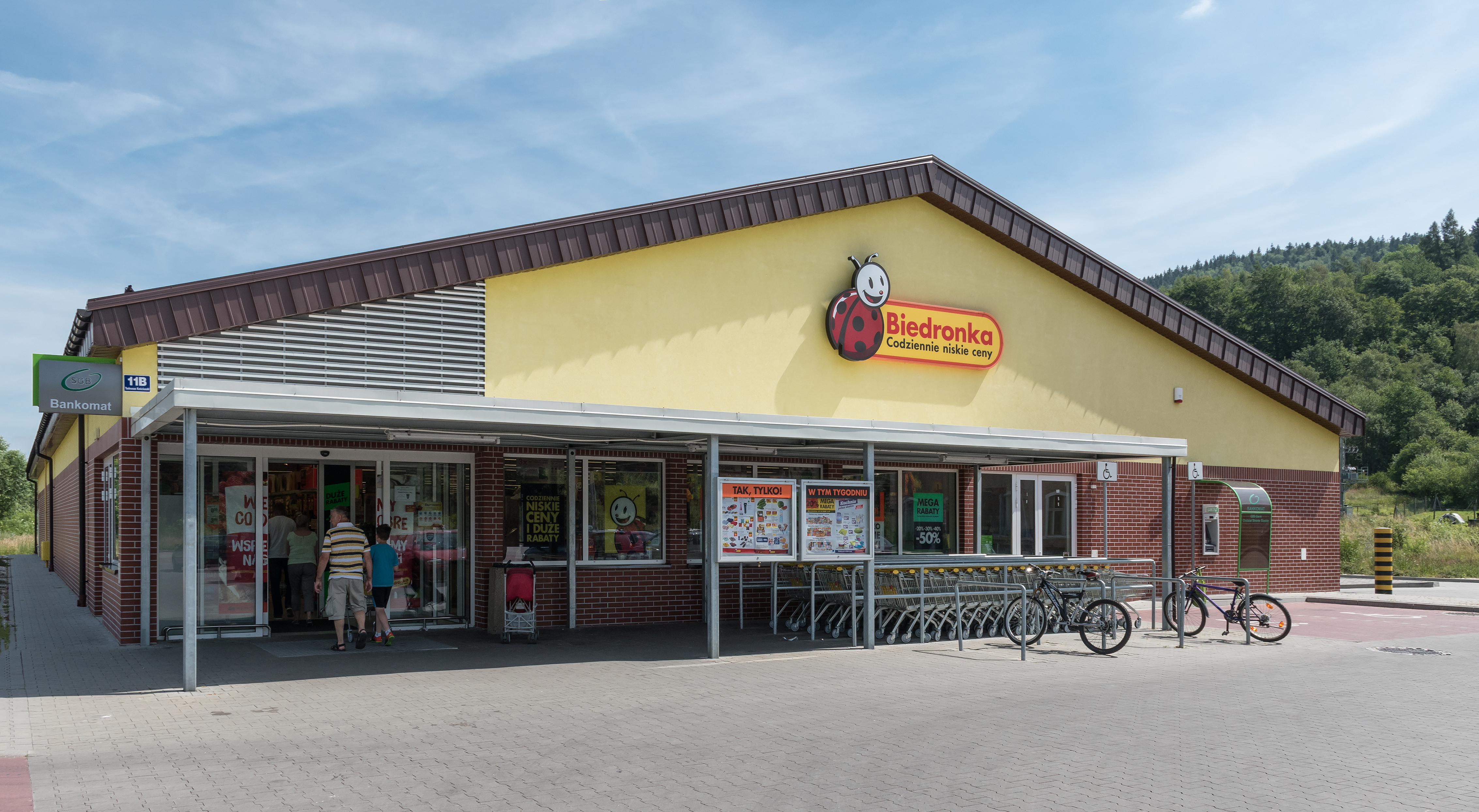 Biedronka shop in Stronie Śląskie